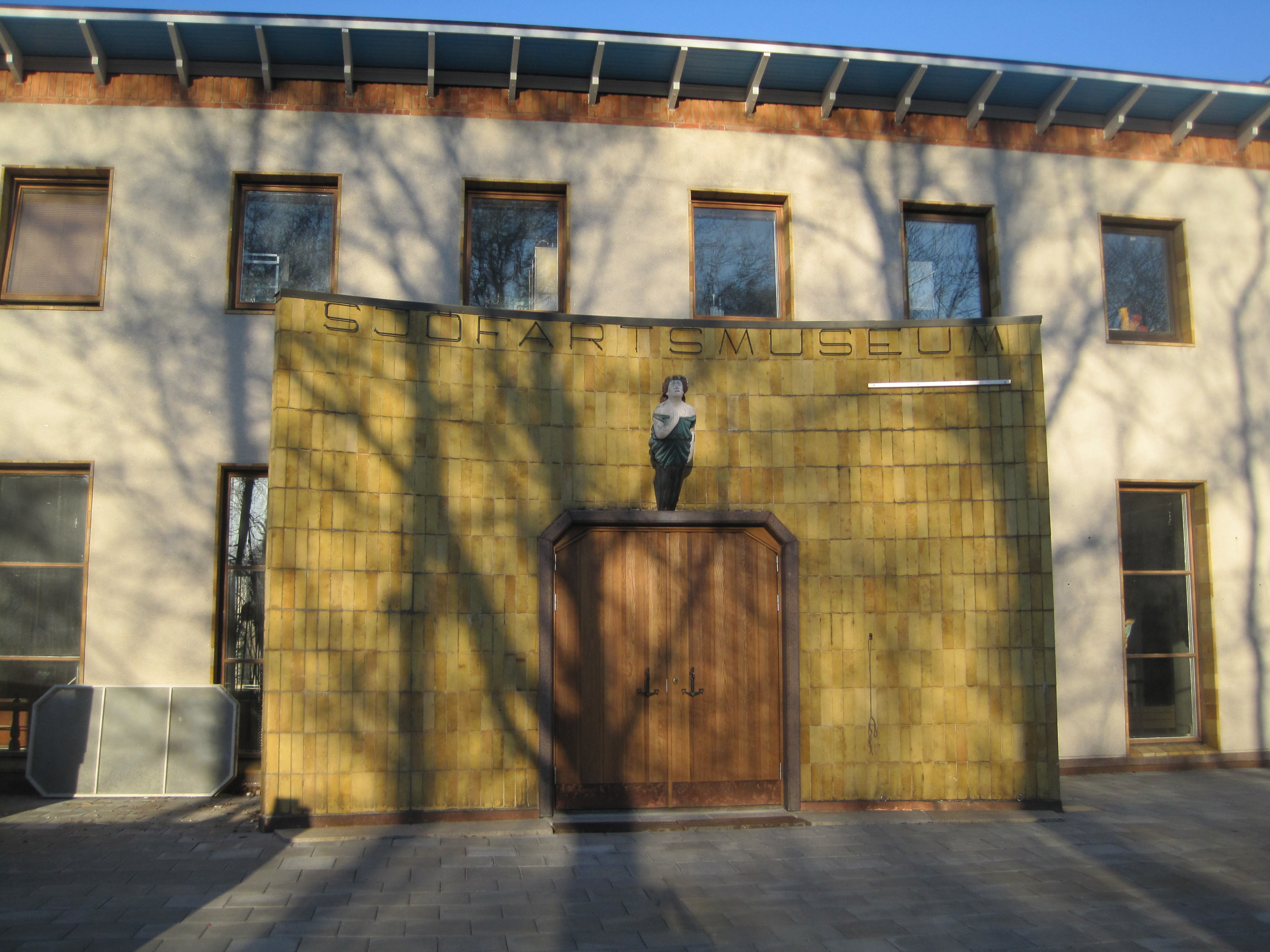 Maritime museum, Mariehamn, Finland